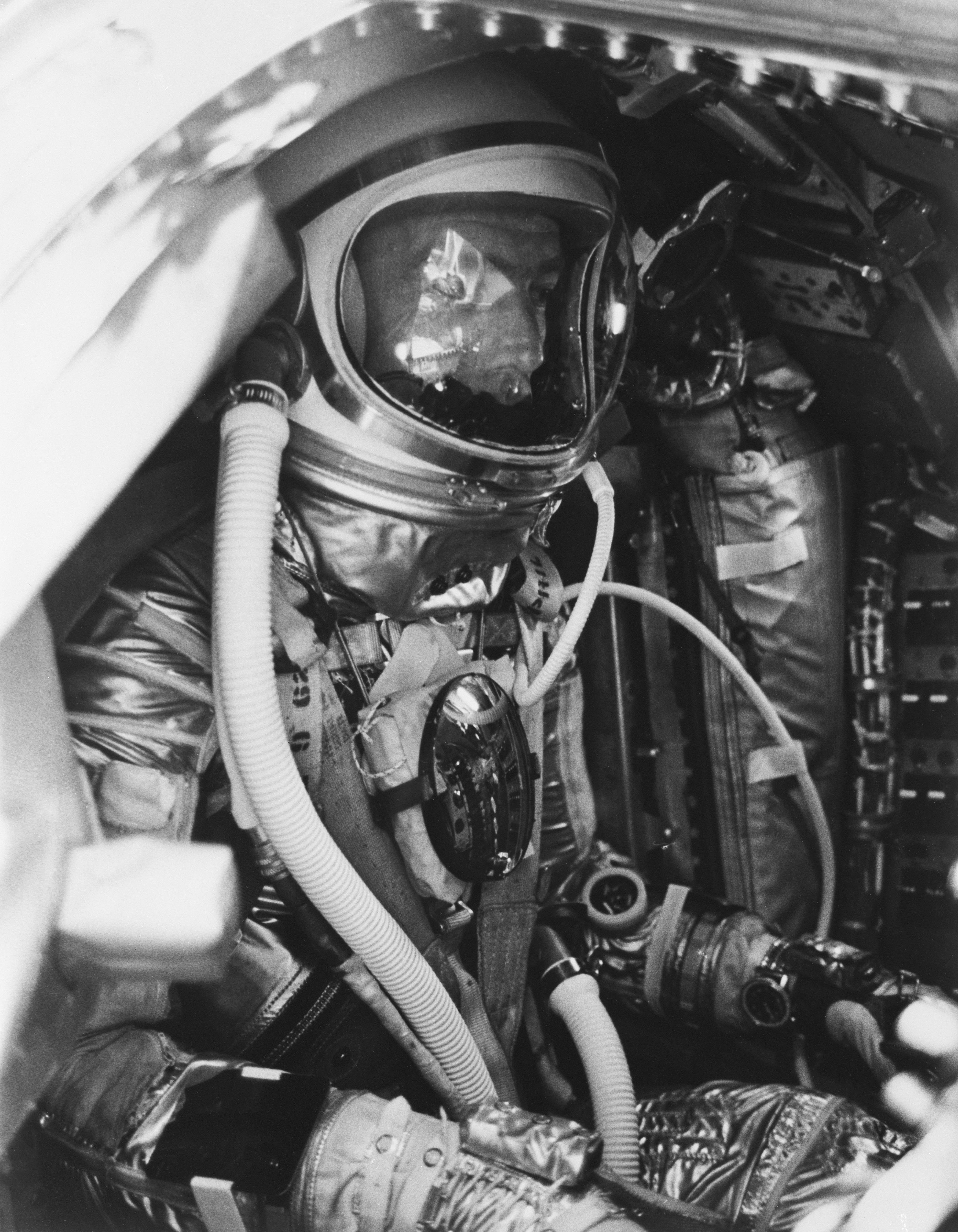 NASA Project Mercury Astronaut Scott Carpenter, pilot of the Mercury Atlas 7 mission, inside his Aurora 7 spacecraft before the launch of the mission on May 24, 1962. NASA photo S62-04047 in public domain.